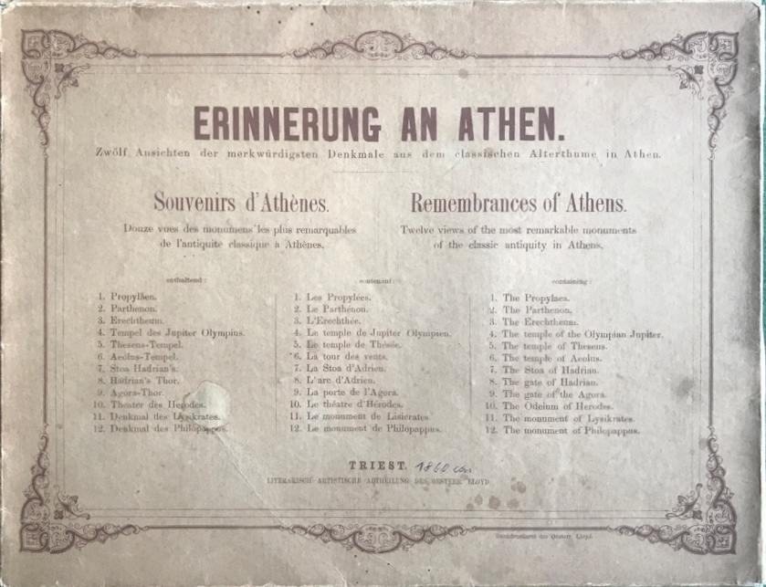 Cover of Remembrences of Athens, Austrian Lloyd, Trieste ca. 1860 (Portfolio of 12 steel engravings, without any explanations)